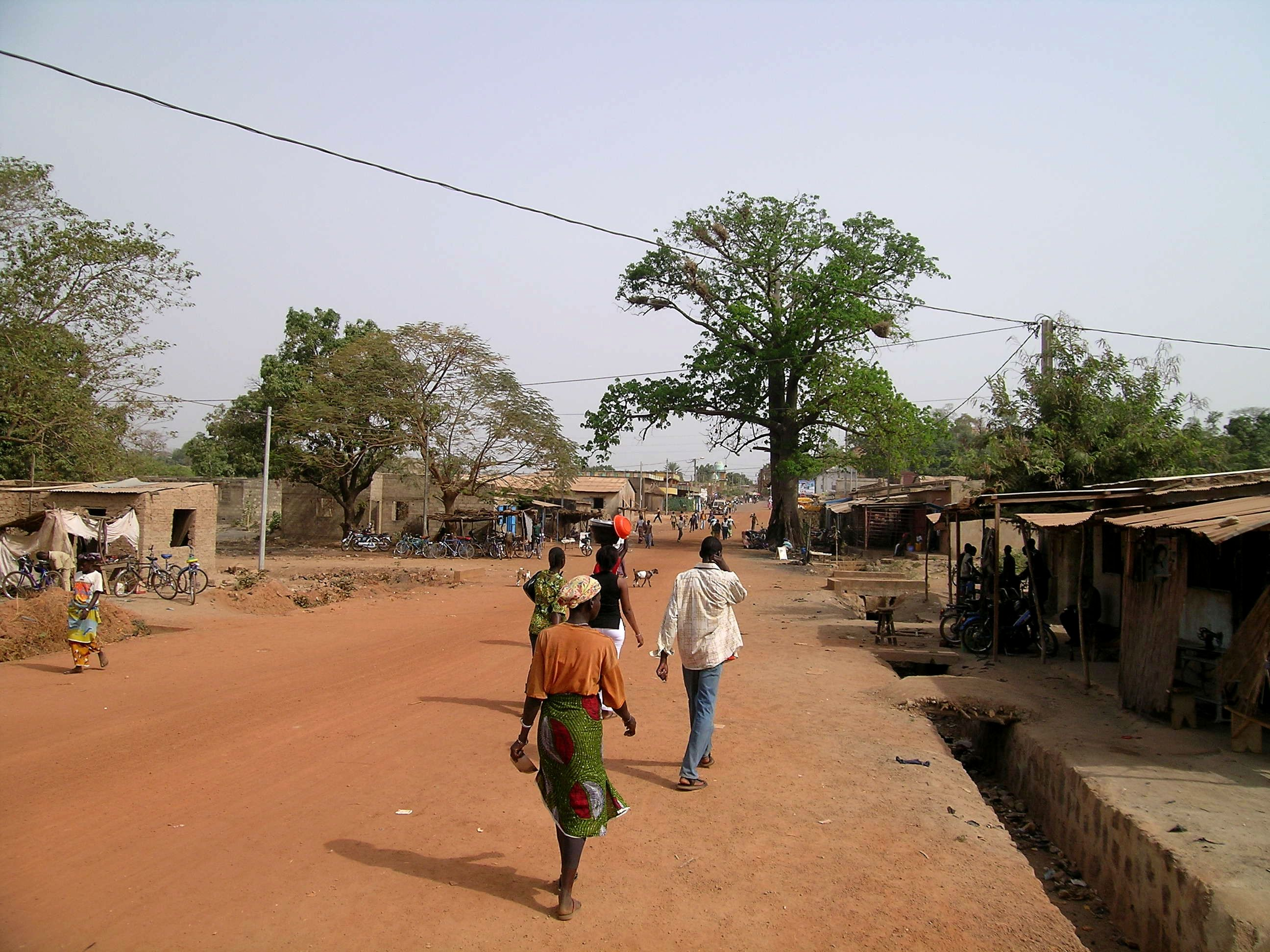 Main Road of Gaoua, Burkina Faso